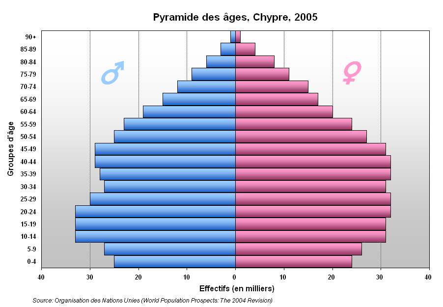 Cyprus Population pyramid, 2005